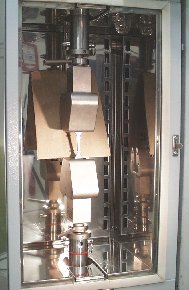 Non-contact extensometry testing: dumbbell specimen (with its two lines for video recognition with a camera) tightened between the jaws of a tensile tester.